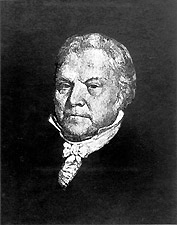 From the U.S. Senate historical office